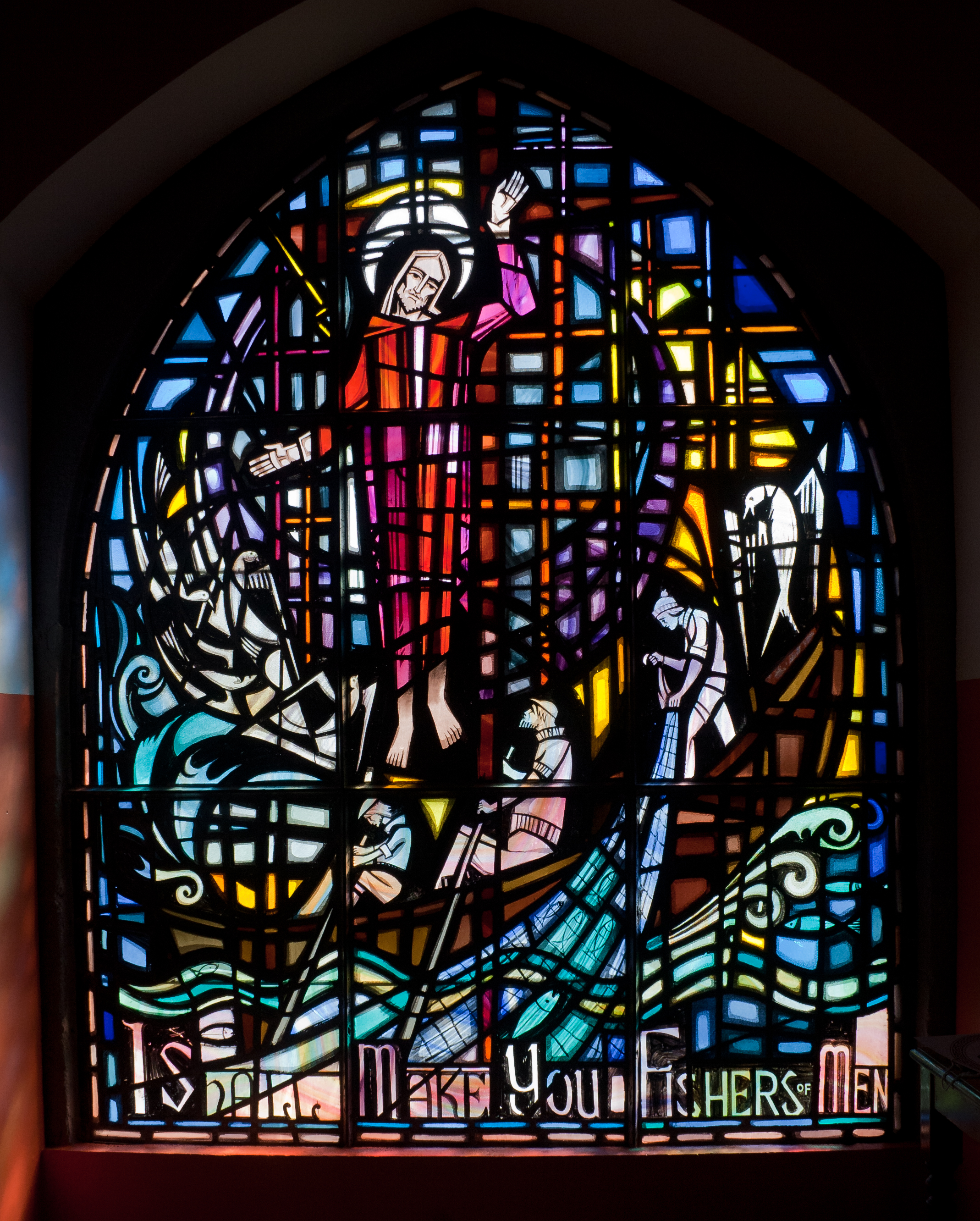 Stained glass window I Shall Make You Fishers of Men in the porch.